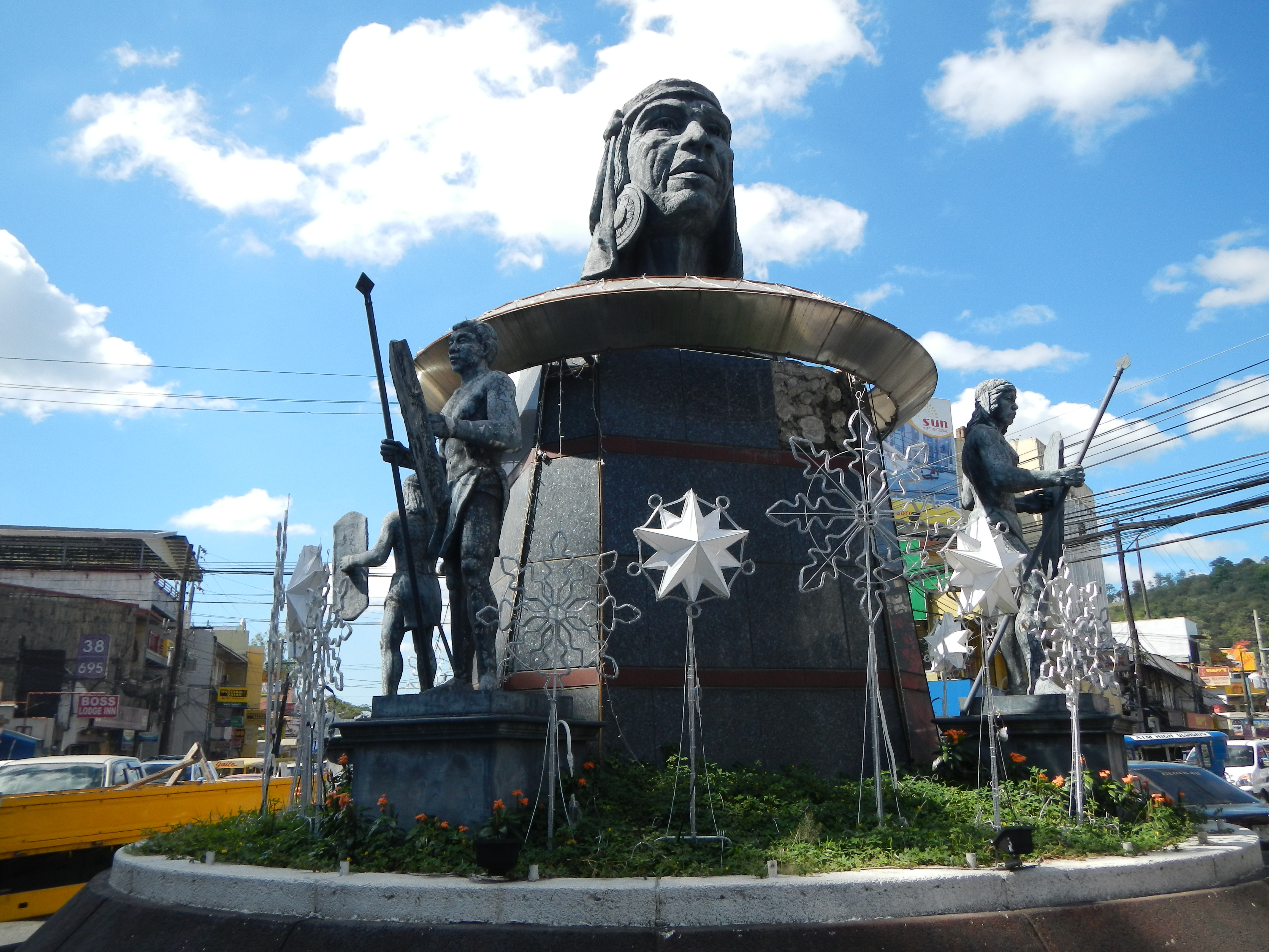 Upload Wizard photos -- (General description, 3-dimension angle by angle photography of this town, church & landmarks) -- the - Pan-Philippine Highway or Daang Maharlika or National Highway passing along Olongapo City, [1] Zambales Proper (details - Ulo ng Apo: a towering and majestic marker located in rotunda in Bajac-Bajac tourist attraction on the City legend, Mercury Drug, Villagracia building, Victory Liner building and terminal, station, bus stop, Saint Joseph Catholic Church of Olongapo City - Roman Catholic Diocese of Iba[2] [3] Olongapo Vicariate Vicar Forane: Rev. Fr. Daniel Presto F-1920 2200 Olongapo City Titular: St. Joseph, March 19 Parish Priest: Rev. Fr. Bernard Mulkerins, MSSC Parochial Vicars: Rev. Fr. Denis Egan, MSSC Rev. Fr. John Walsh, MSSC Rev. Fr. Ian Maniago Rev. Fr. Francis O’ Kelly, MSSC - Dedicated on August 16, 2010 - 18th street, Barretto, East Bajac, Olongapo City).